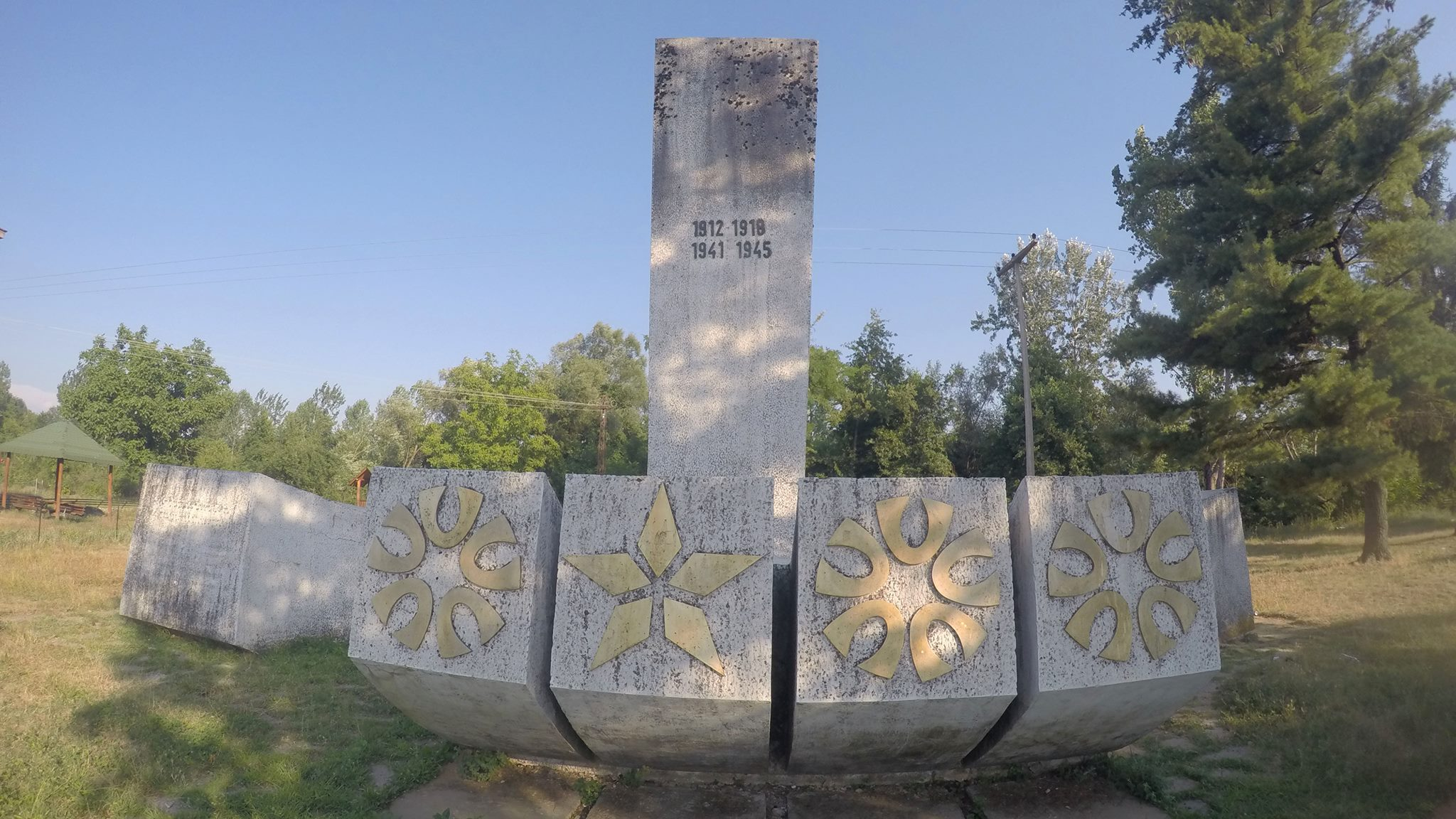 Споменик у Мирошевцу